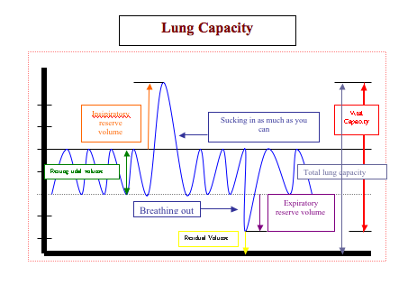 Created by students writting the human physiology wikibook